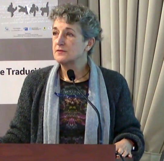 Verspoor's presentation on Dynamic patterns in development of accuracy and complexity.